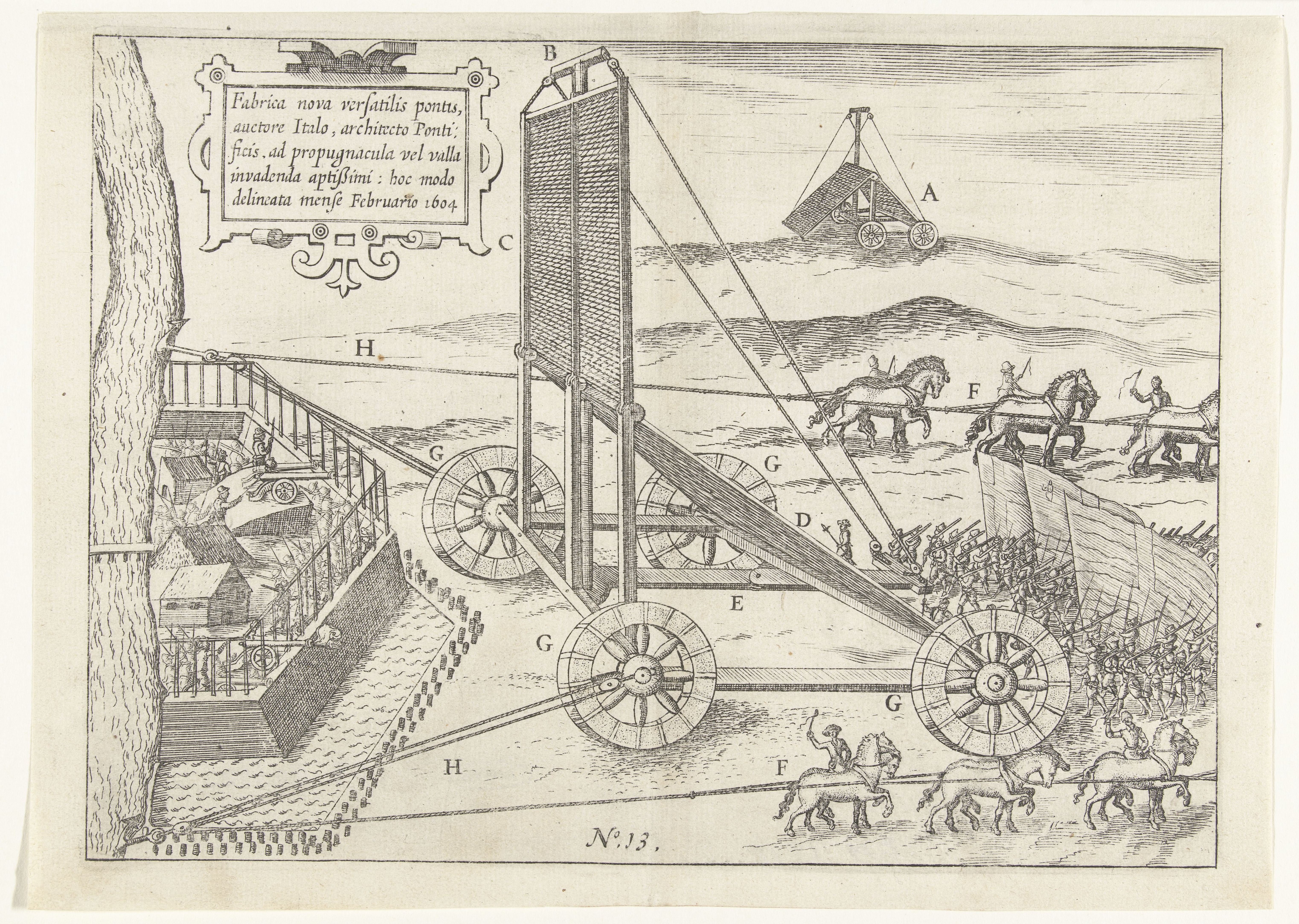 Demonstration of the mobile drawbridge from the Italian engineer Pompeo Targone during the siege of Ostend, February 1604